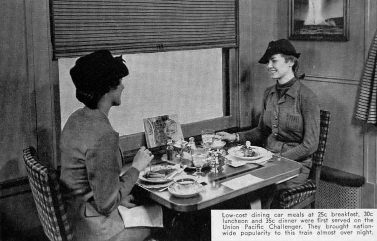 Postcard photo of the dining car of the Union Pacific Railroad's Challenger.